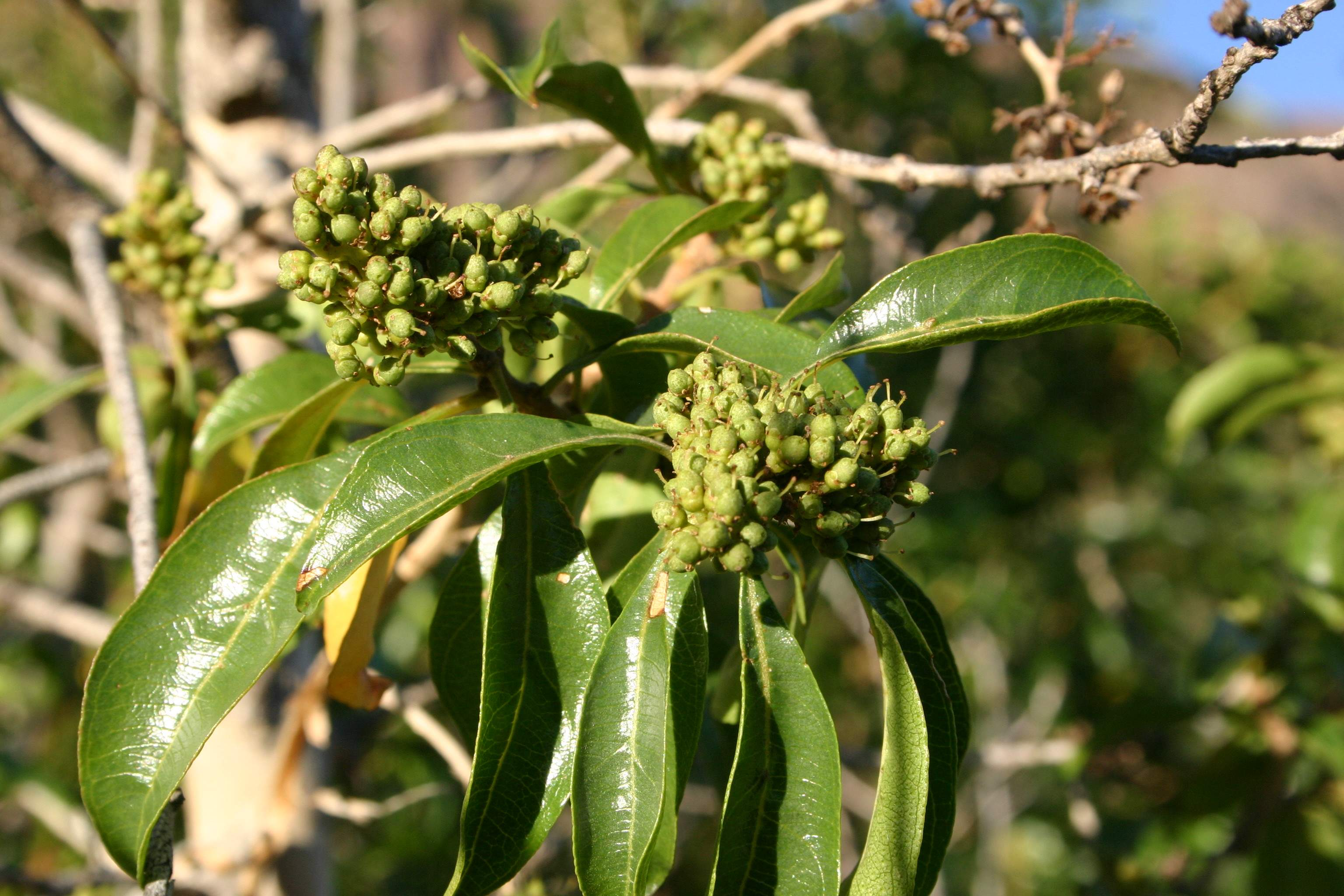 Heteropyxis natalensis Harv., fruit and foliage, Krantzberg near Thabazimbi, South Africa